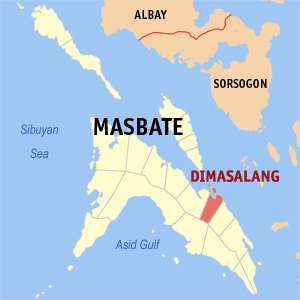 Map of Masbate showing the location of Dimasalang